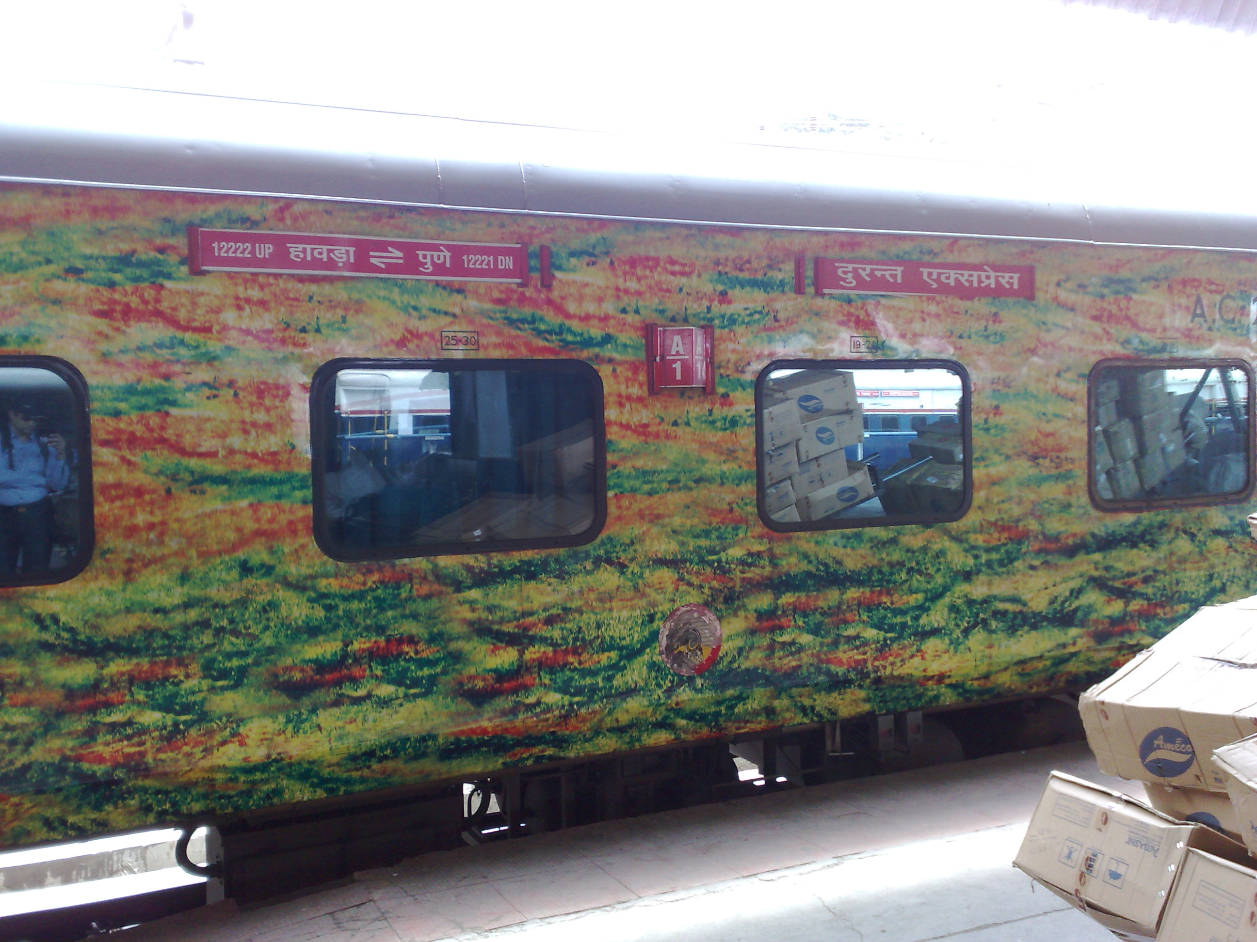 12221 Pune Howrah Duronto Express - AC 2 tier coach